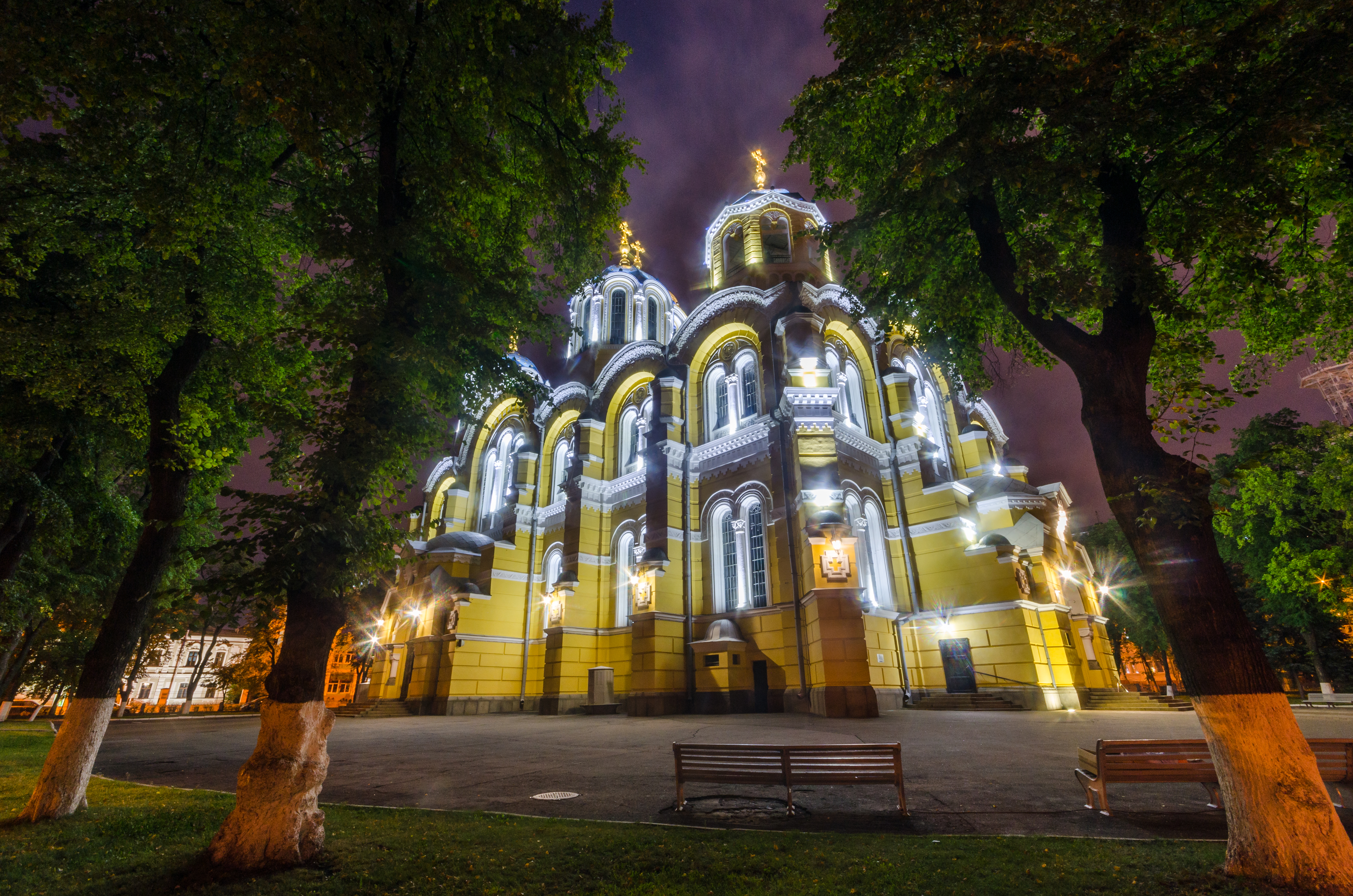 St. Volodymyr's Cathedral, Kyiv